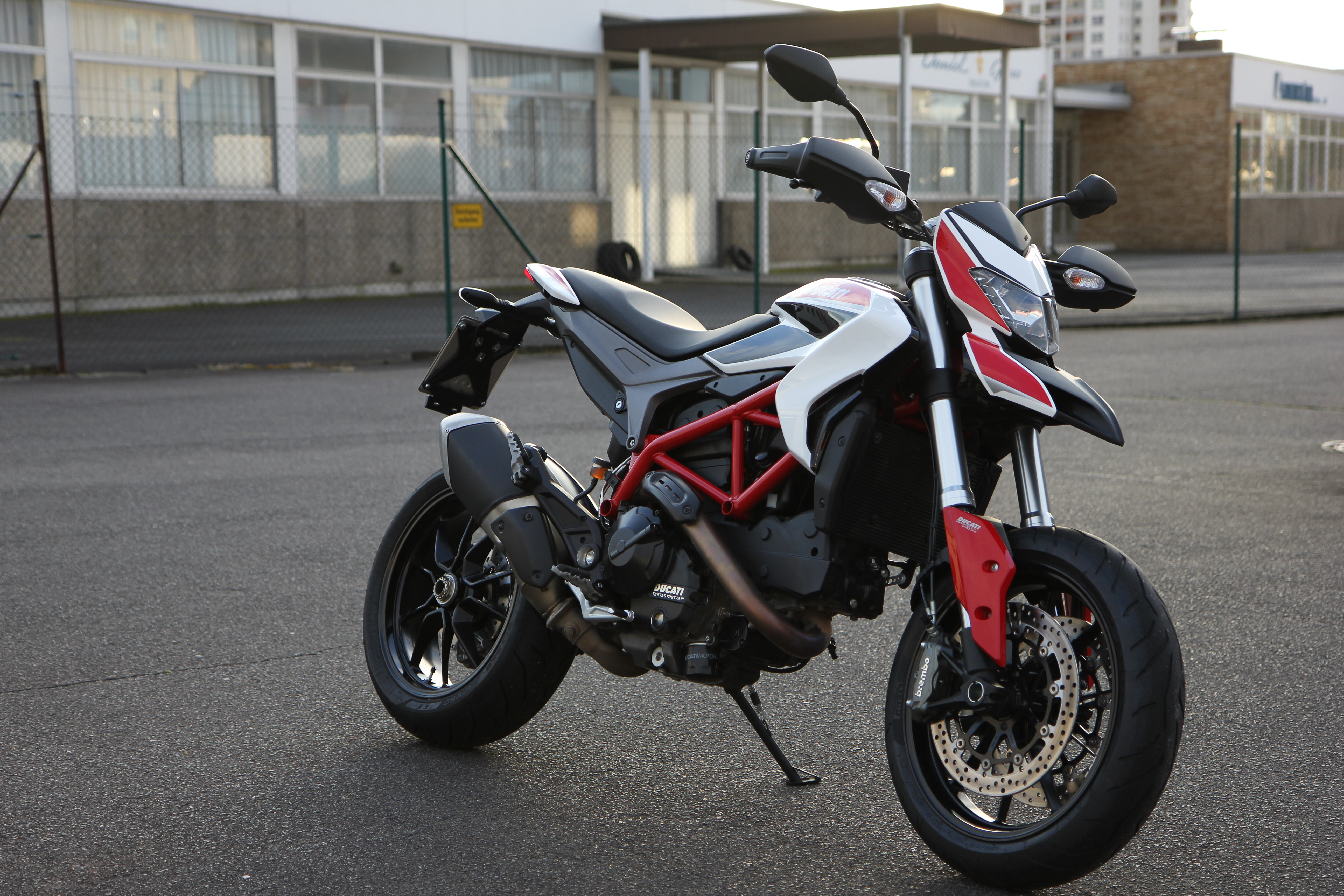 Ducati Hypermotard 821